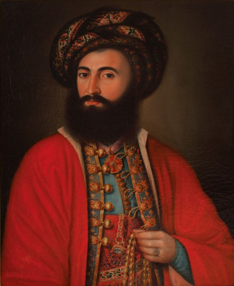 Portrait of the Wallachian boyar Constantin Cantacuzino, later Caimacam of Wallachia and conservative politico.